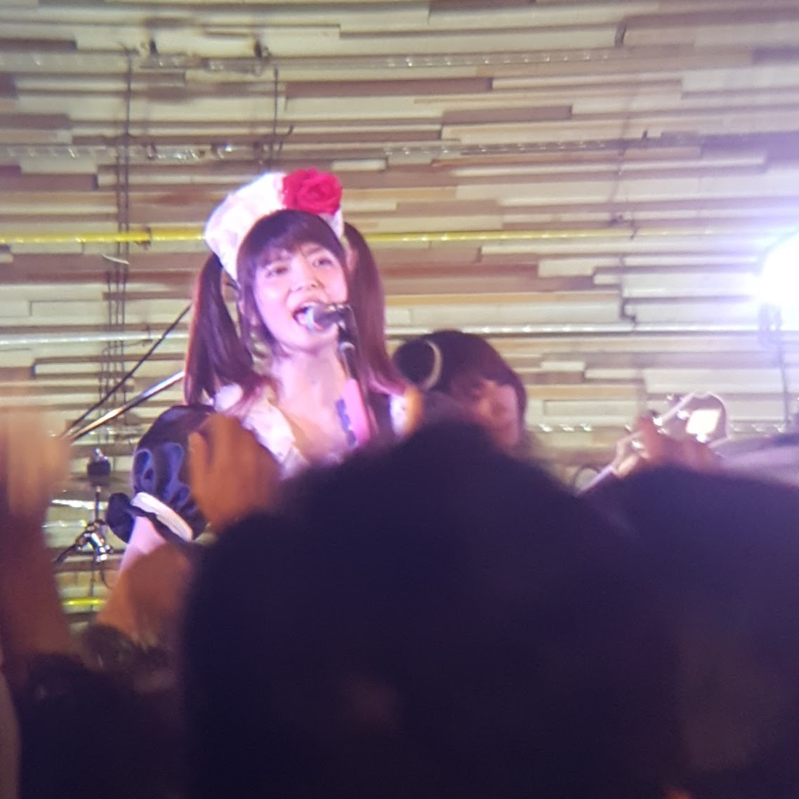 Miku Kobato singing at Misono Universe, Osaka, 2017